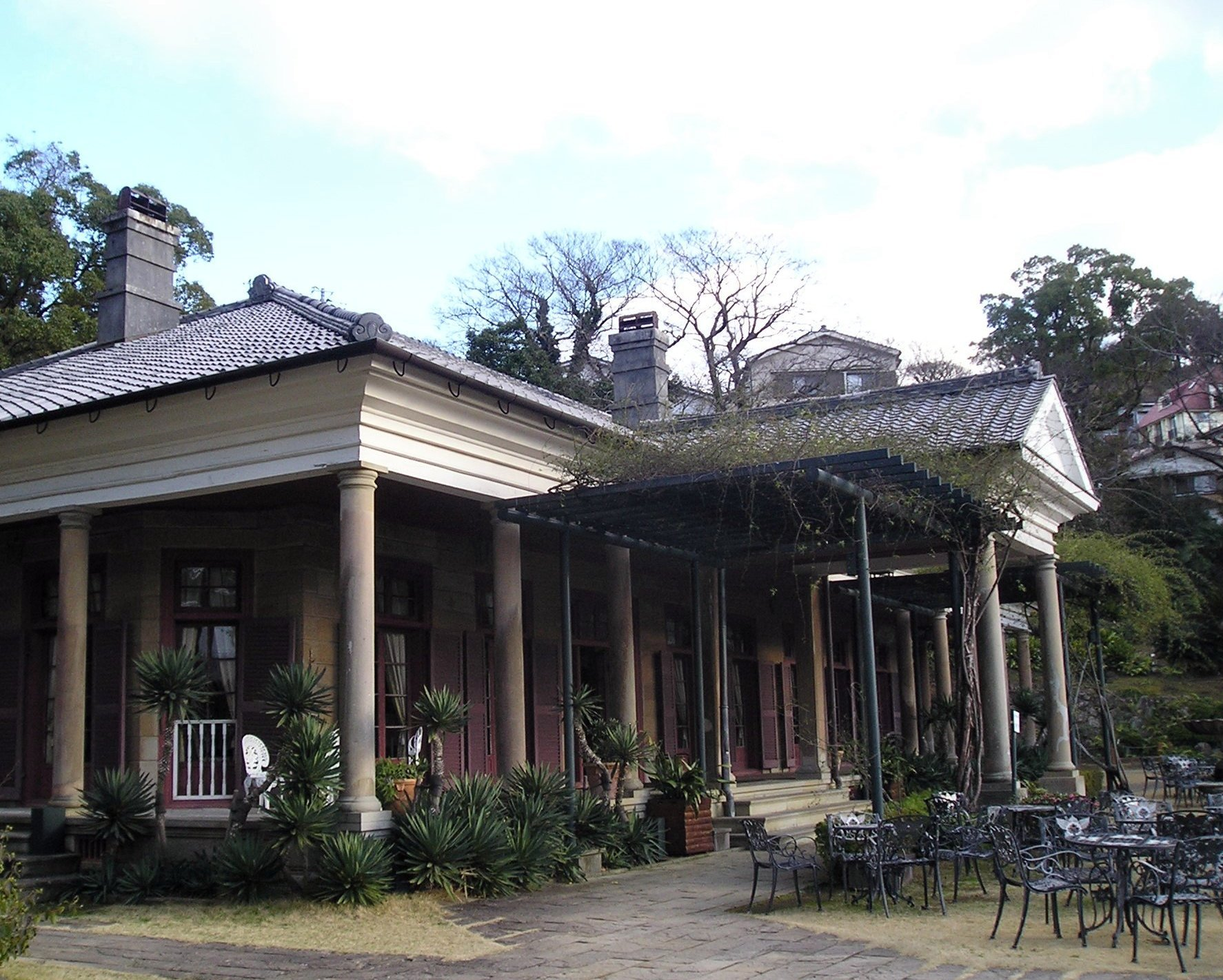 Old Alt House, Nagasaki, Japan